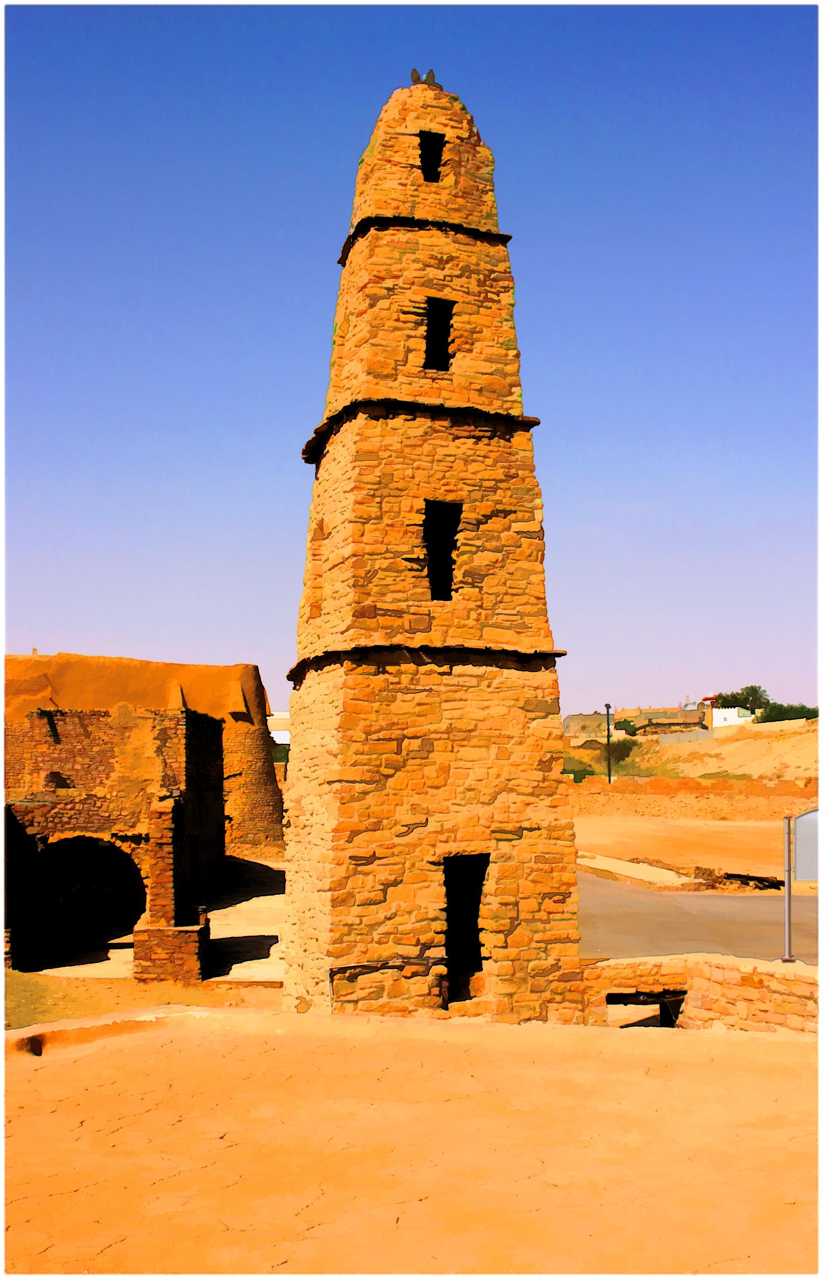 The mosque of Omar Ibn al-Khattab is situated in the town of Dawmat al-Jandal, Saudi Arabia. Built in 634–644, rebuilt in 1793–1794.